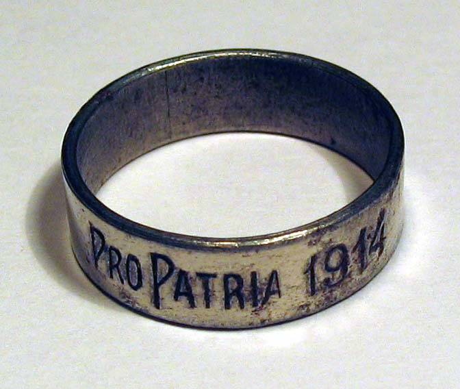 Ring from Austria, given in 1914 for signing a war bond. Photo taken (25 Dec 2005) and uploaded by Roger McLassus.